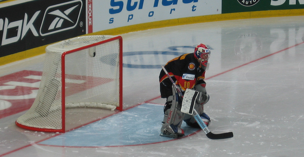 #80 Robert Müller. ice hockey goaltender of ther german national team, photo taken in Usti nad Labem, Czech Republic, during preliminary game. Germany won 4:2 against the Czechs.